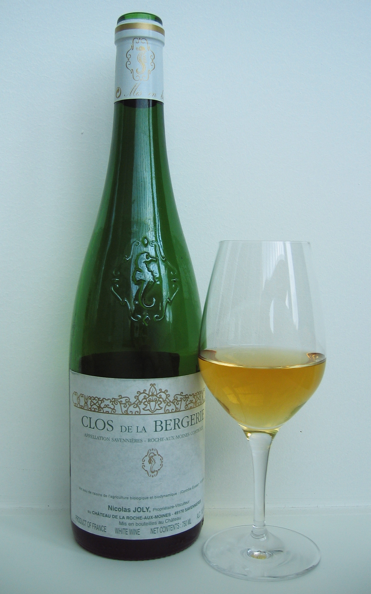 Clos de la Bergerie 2001, a wine from the appellation Savennières-Roche aux Moines, Loire. Produced by Nicolas Joly.